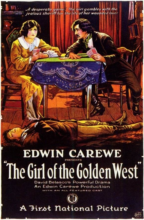 Poster for the 1923 film The Girl of the Golden West. A renewal search was done in both film and artwork for the years 1950 and 1951. There were no listings for the film title or for First National Pictures. There's no evidence of renewal for the film and associated material.